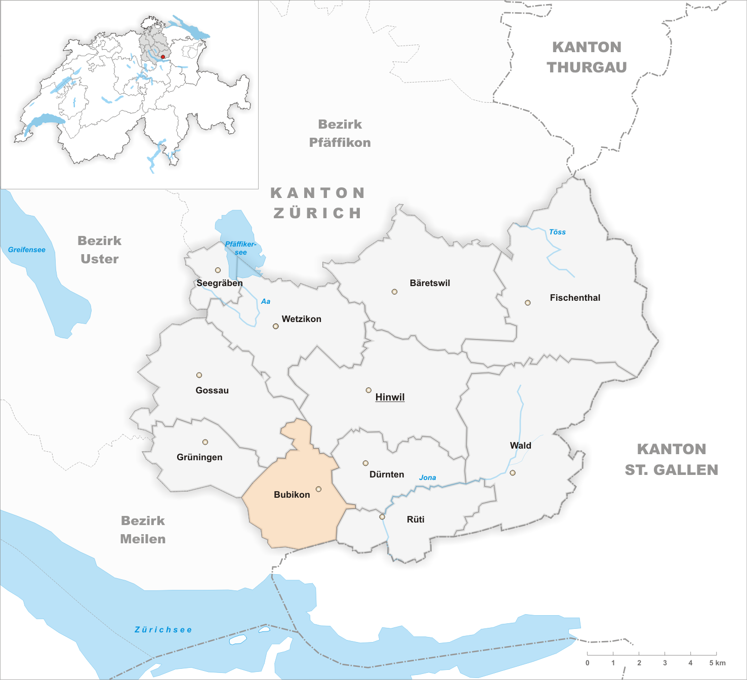 Municipality Bubikon